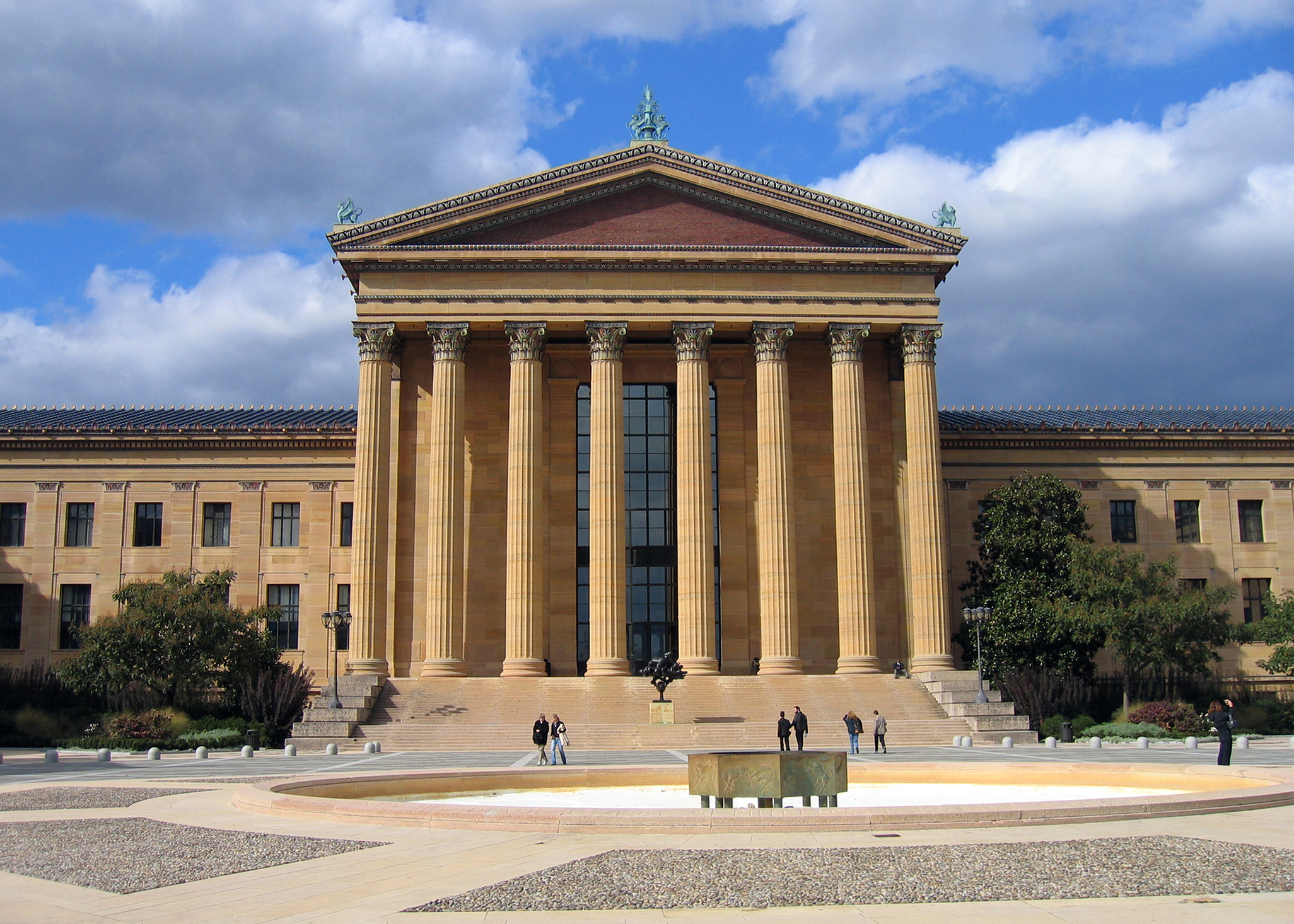 Philadelphia Museum of Art east entrance